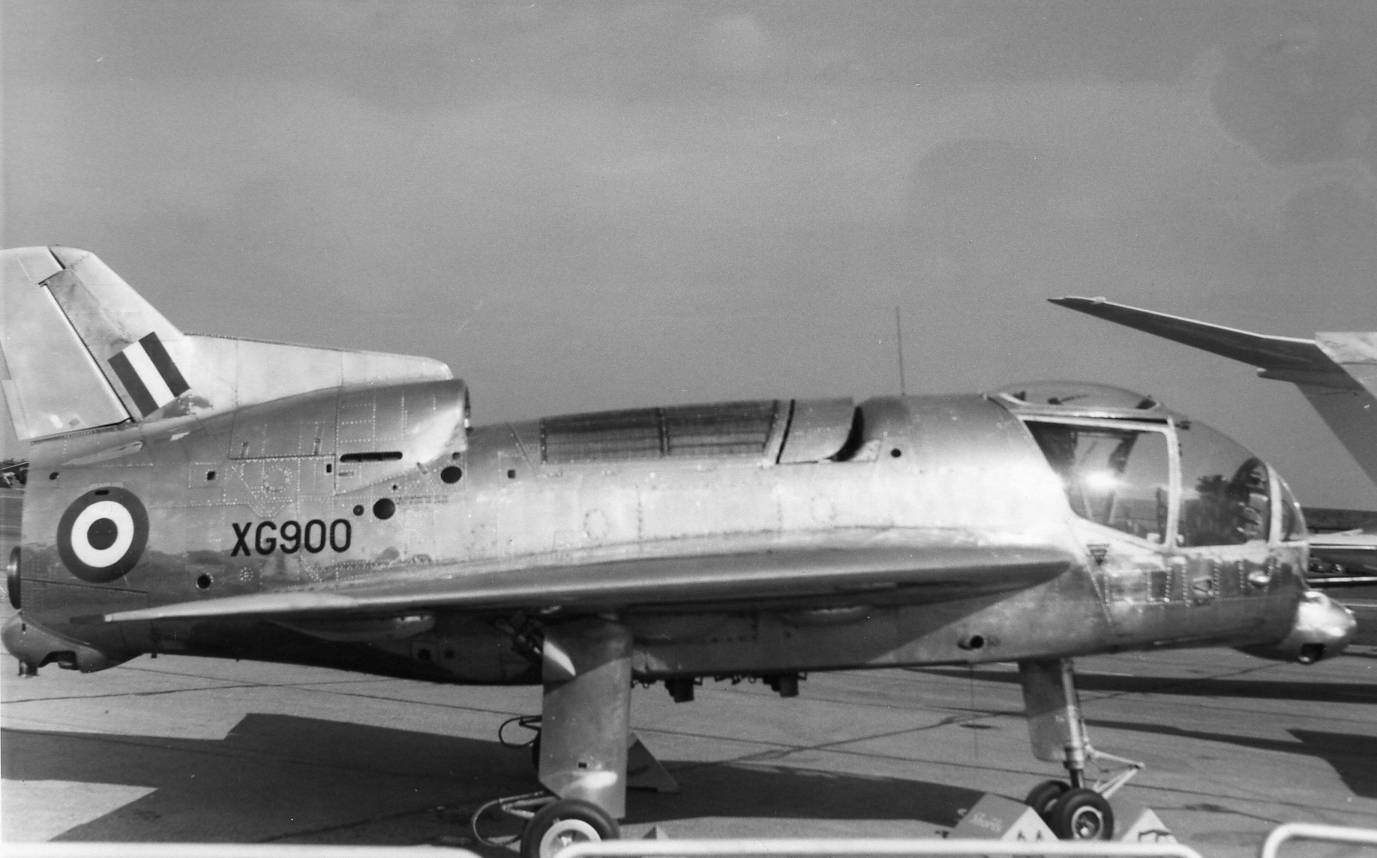 Short SC.1 XG900vertical take-off aircraft at the 1961 SBAC show at Farnborough